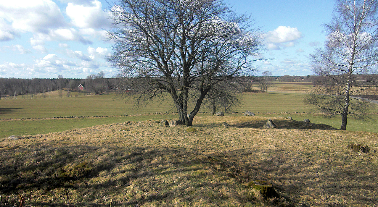 Iron Age graves at the Mediaeval Vårkumla church, Frökind hundred, Falköping municipality, former Skaraborg county, Västergötland, Sweden.